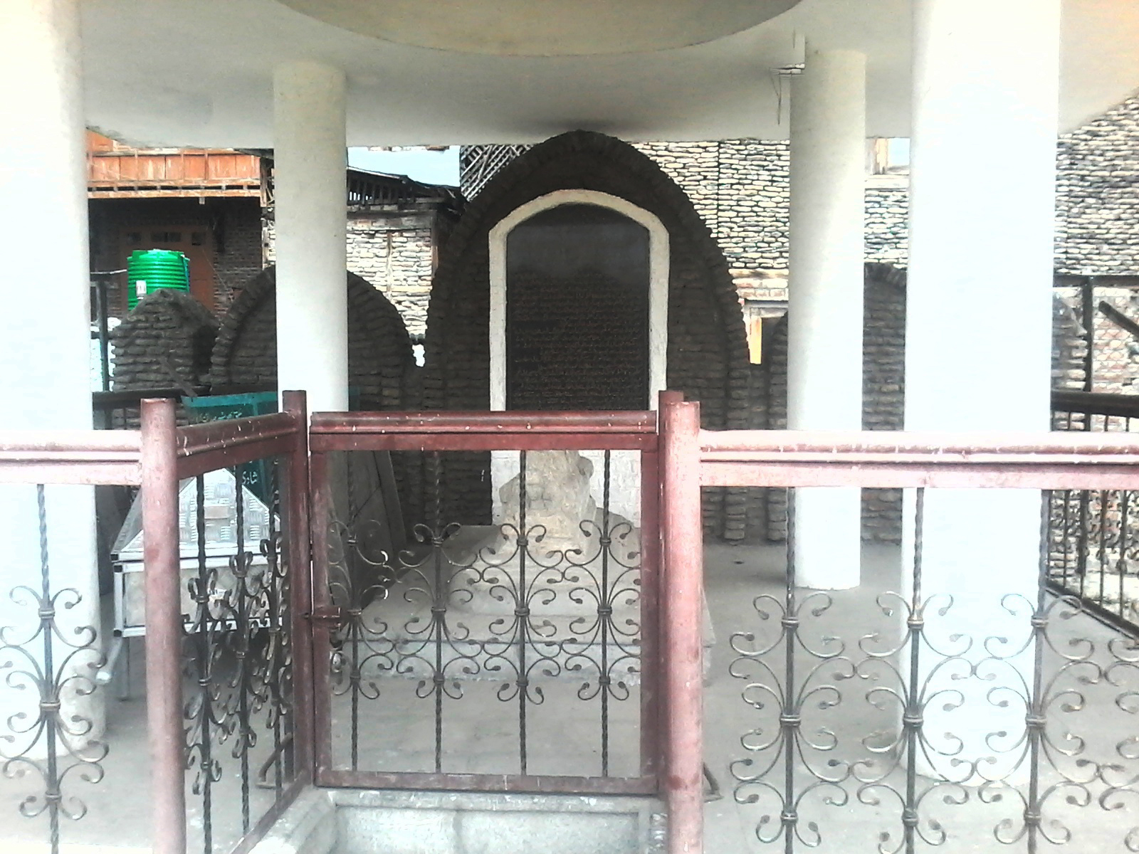 BulBul Shah Shrine